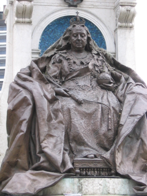 Queen Victoria Statue, Piccadilly Gardens, Manchester. Taken by jameselliot 17:45, 22 October 2005 (UTC)